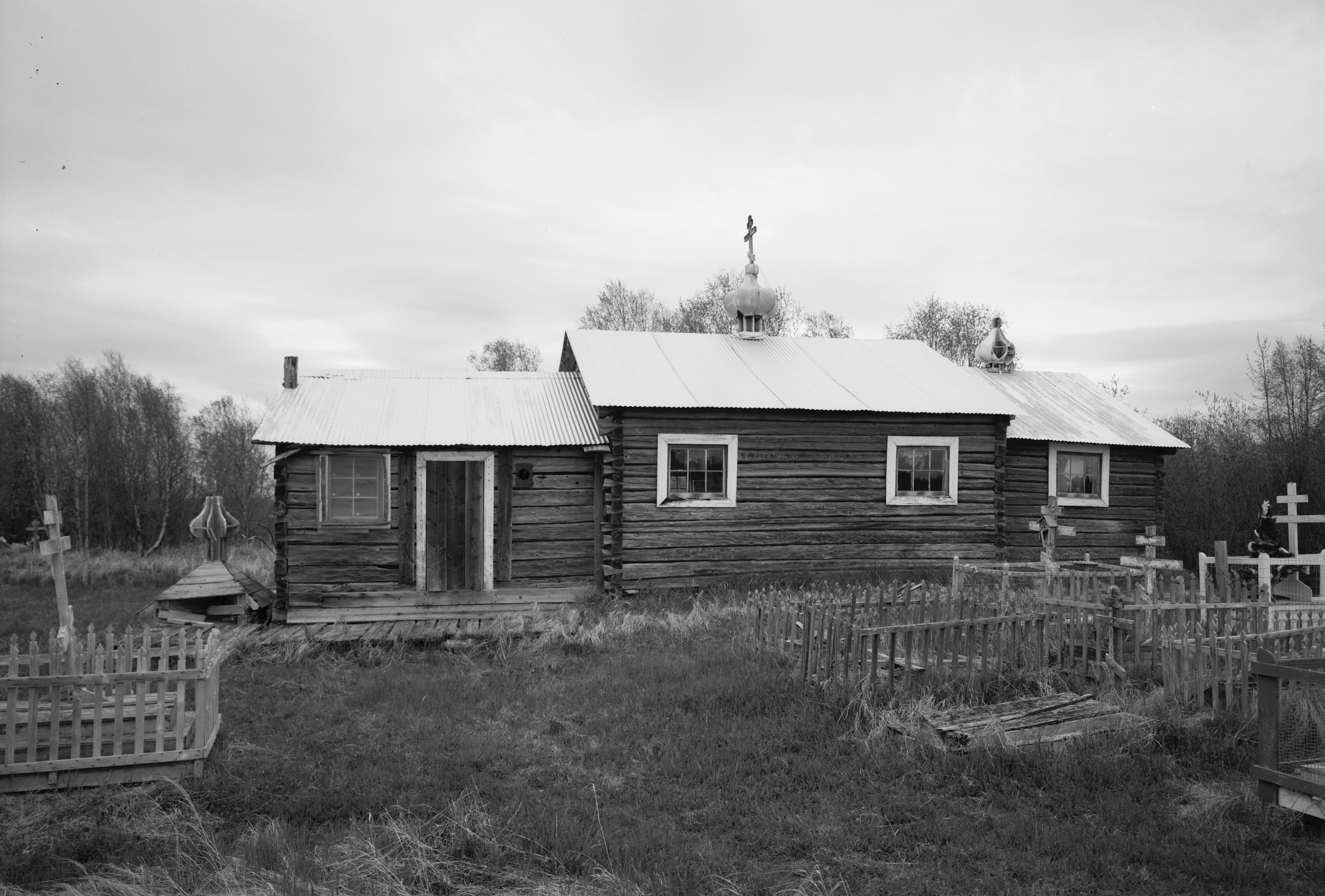 St. Seraphim Russian Orthodox Churches, Old Church, Lower Kalskag, Bethel Census Area, Alaska